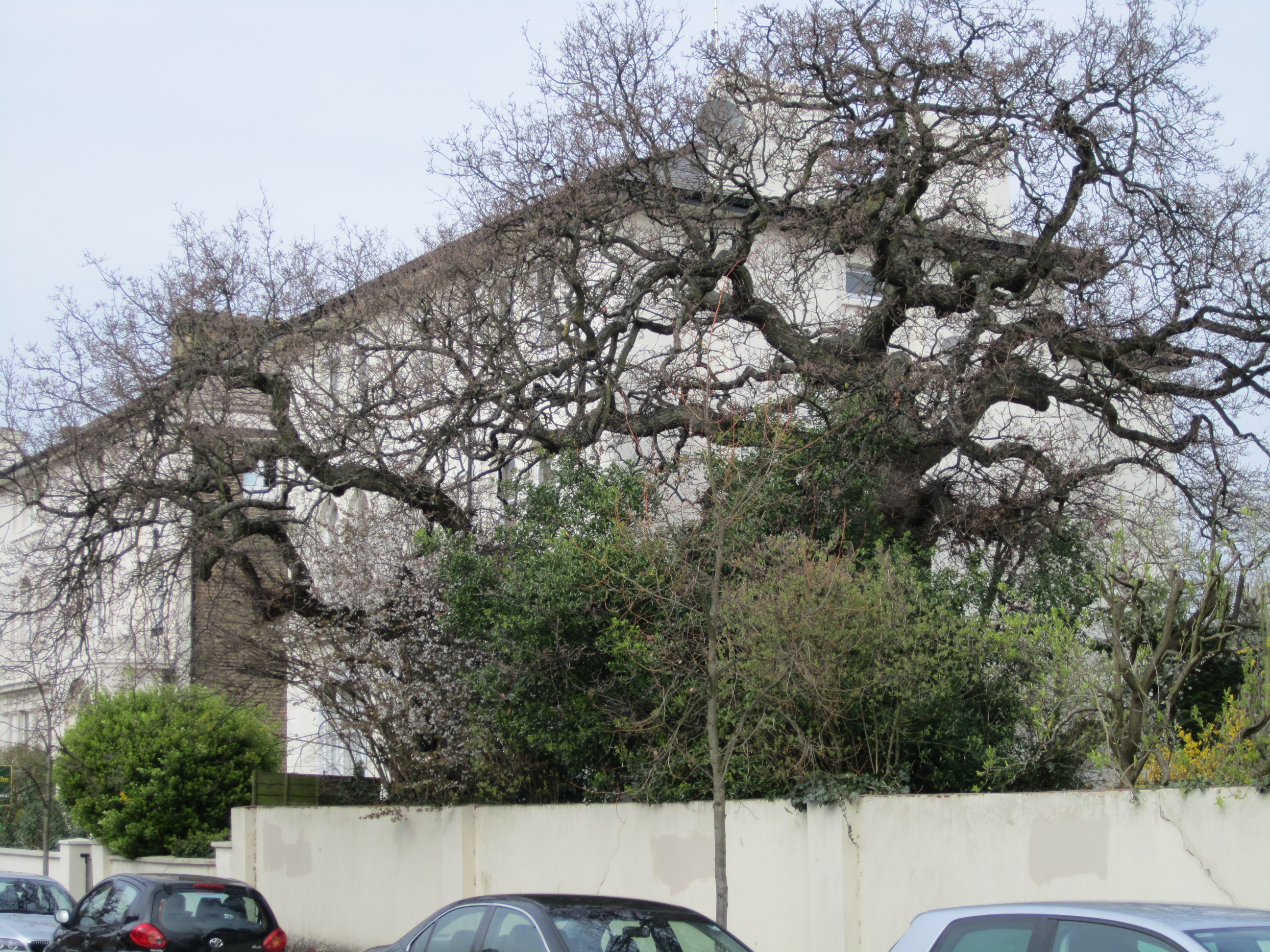 Ancient oak behind Grove Tavern, Surbiton, with Woods period houses beyond.